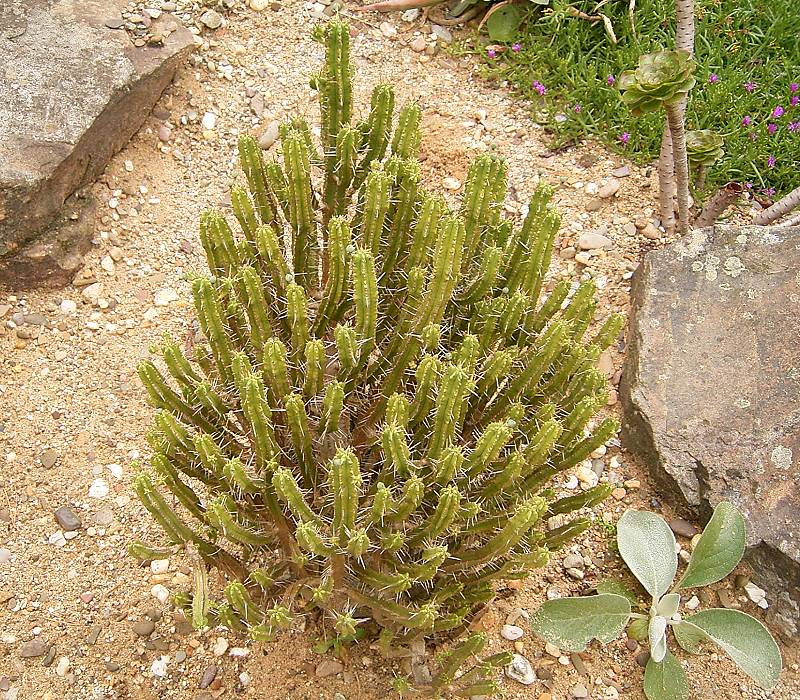 Euphorbia heptagona BG Bochum, Germany